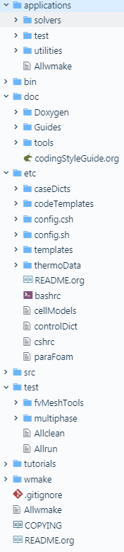 Overview of OpenFOAM software directory structure. This is the state-of-the-art user interface.